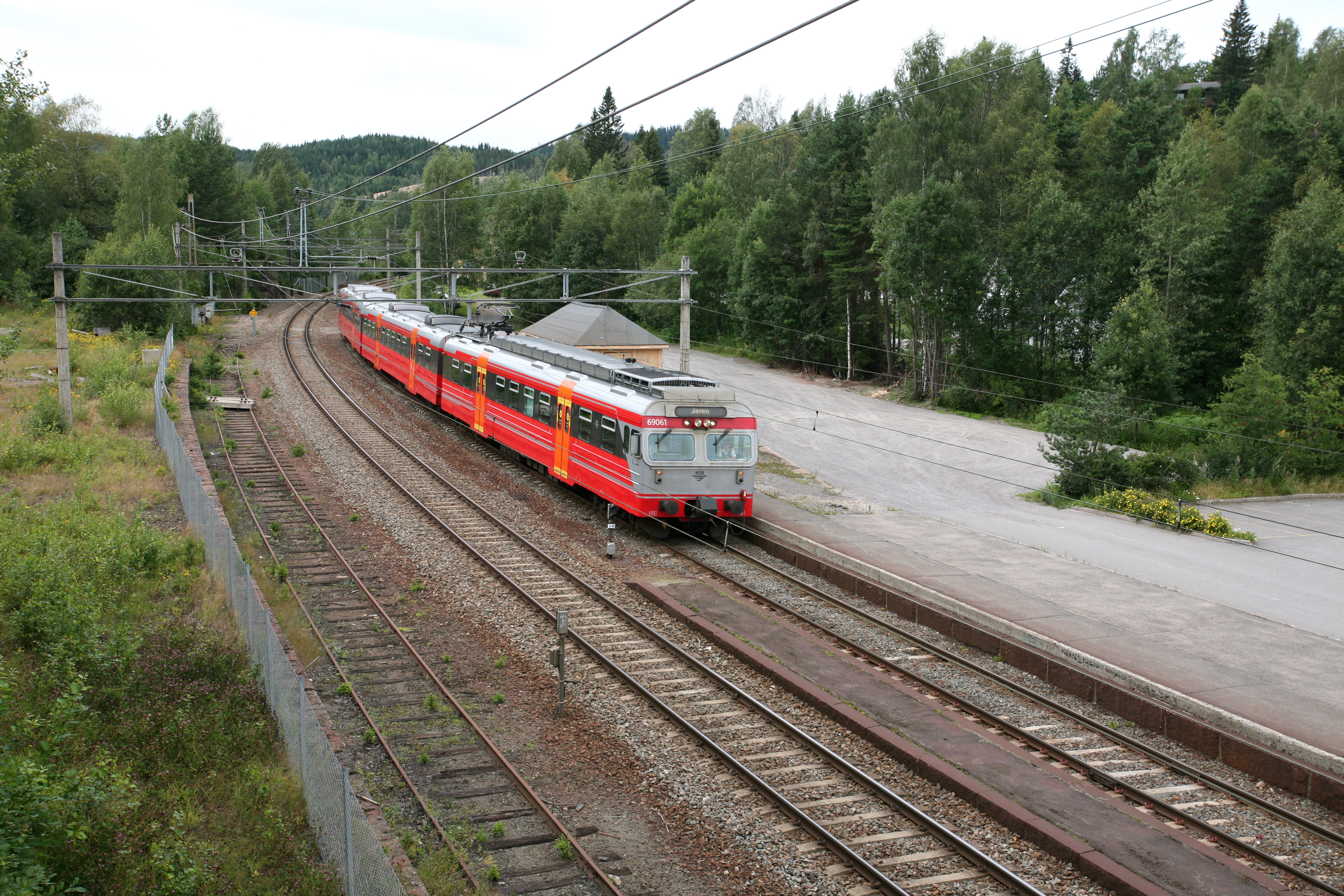 Picture of NSB Gjøvikbanen's 69061 at Nittedal Railway Station (Norway)